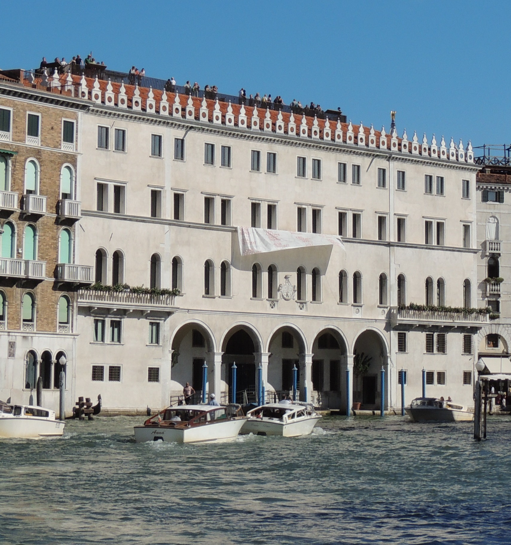 palaces of canal grande